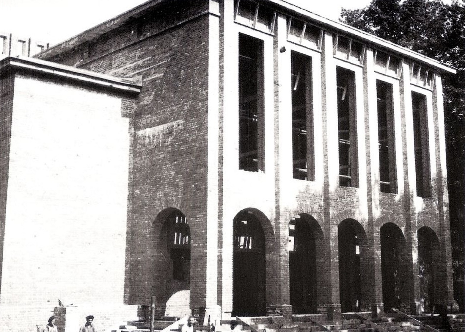 Construction site 1948